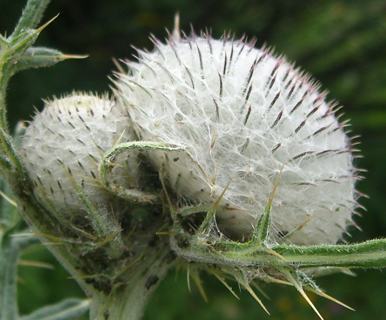 Detail of Cirsium eriophorum